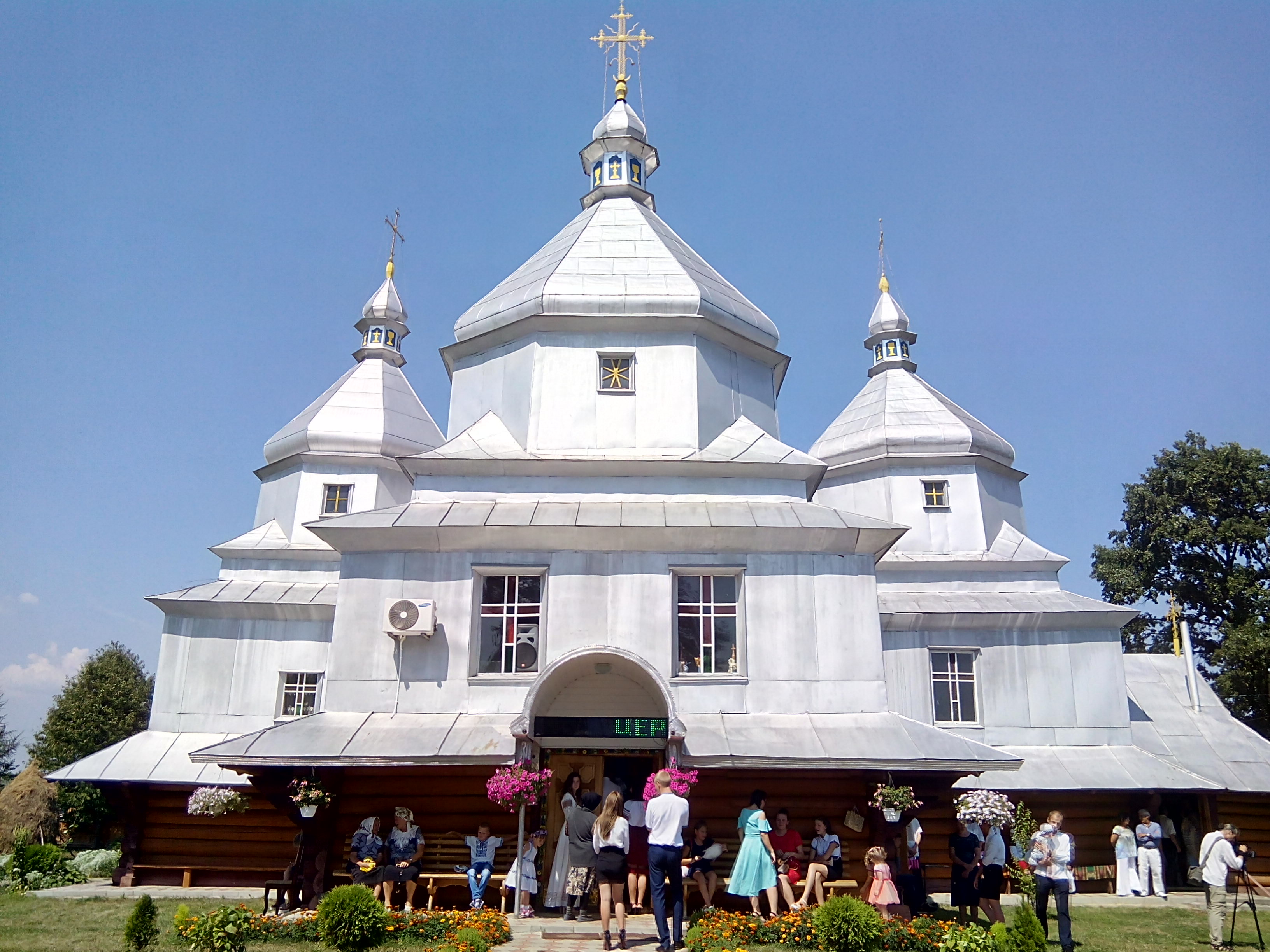 Greek-catholic church in the village of Spas, Kolomyia Raion, Ivano-Frankivsk Oblast, Ukraine